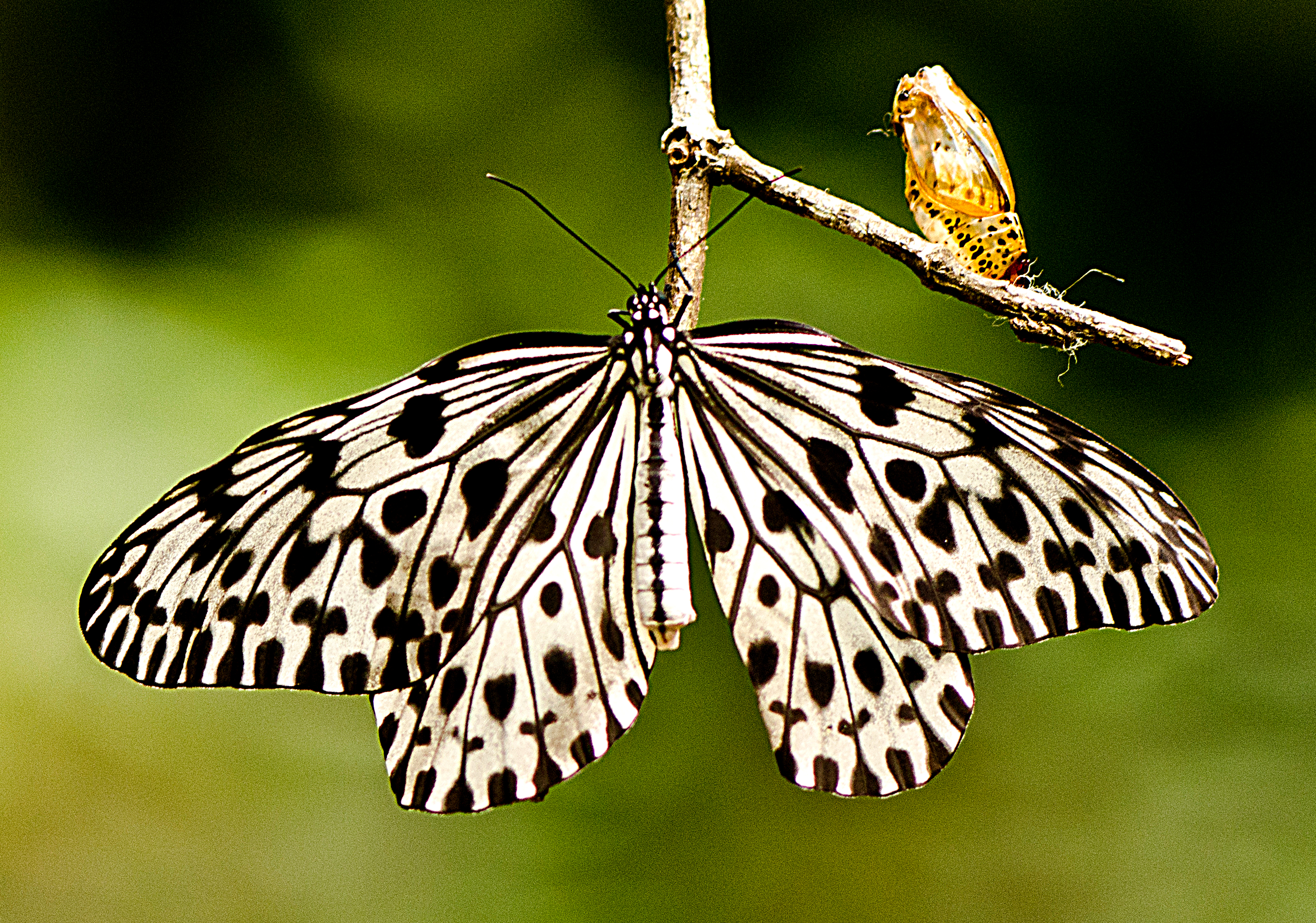 Malabar tree nymph seen in Malabar Wildlife Sanctuary , Kakkayam,Kozhikode.